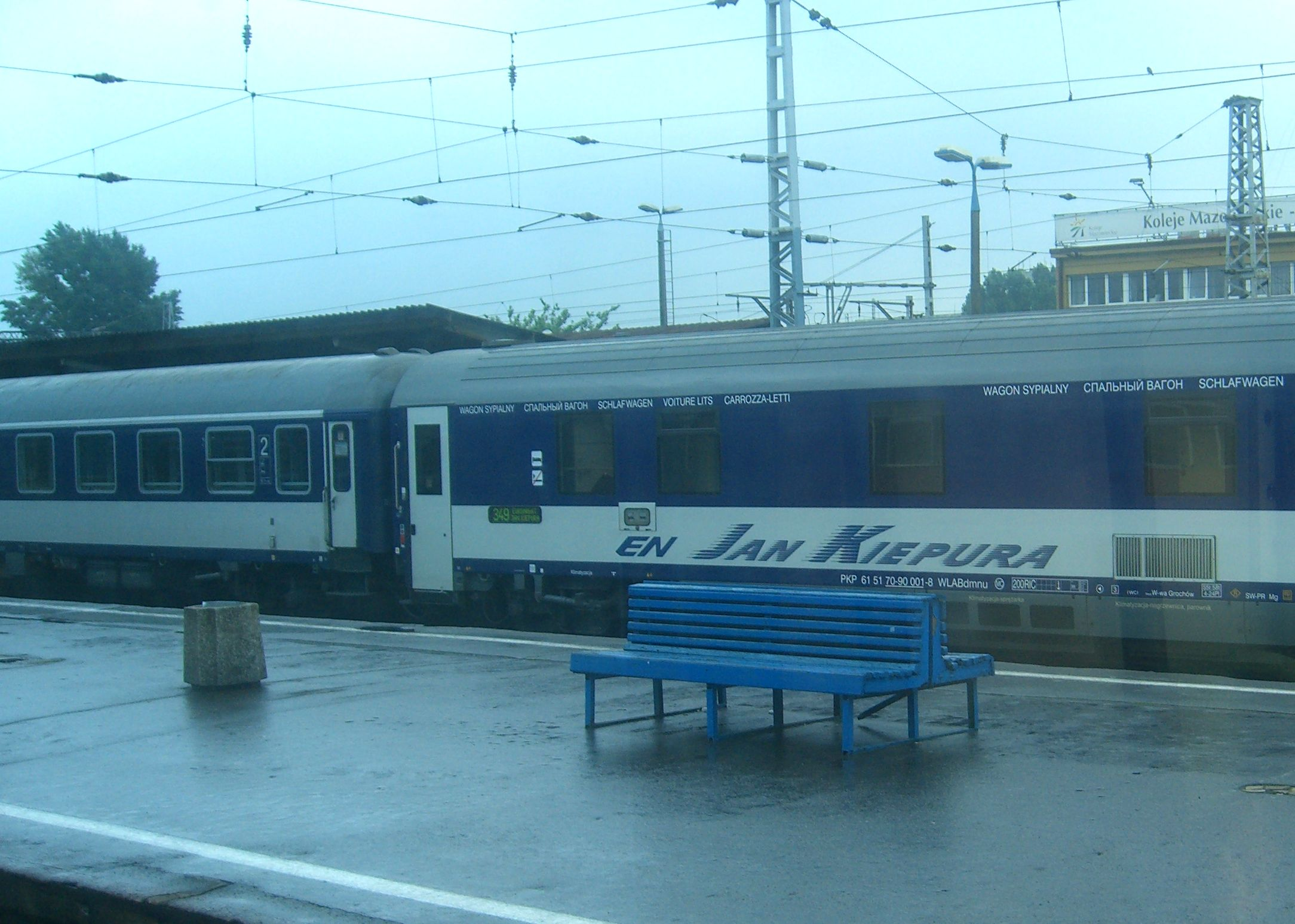 EN "Jan Kiepura" coach in Warszawa Wschodnia